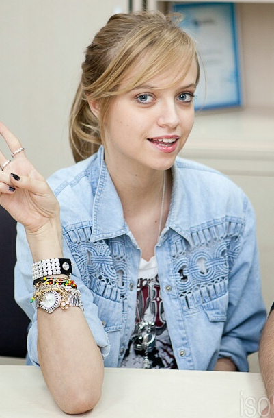 Sasha Strunin chat´s with fotka.pl users